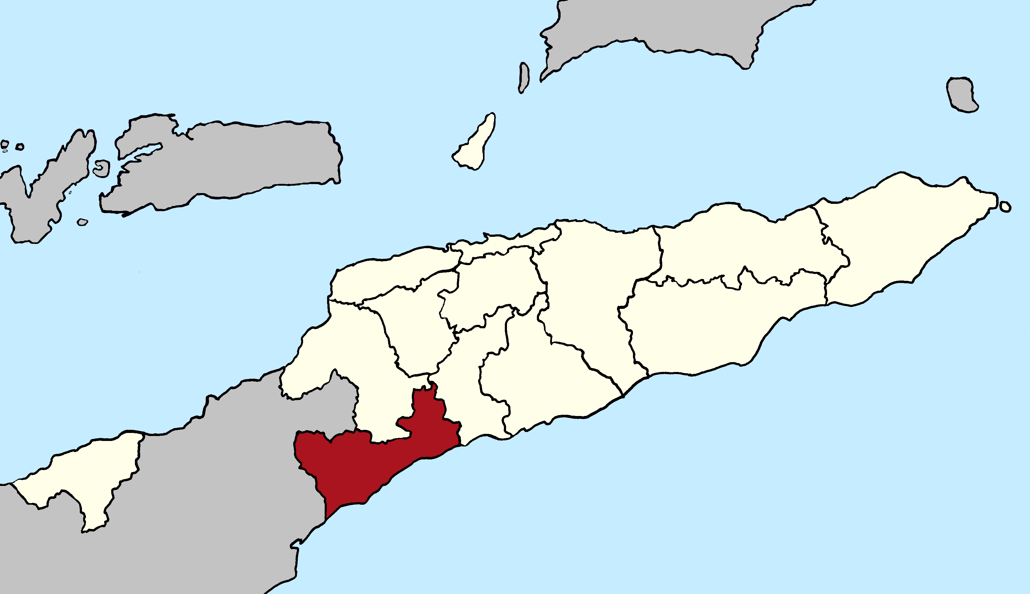 Locator map of Cova Lima municipality since 2015, East Timor